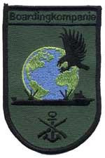 Unit Crest of the GERMAN NAVY BOARDINGKOMPANIE